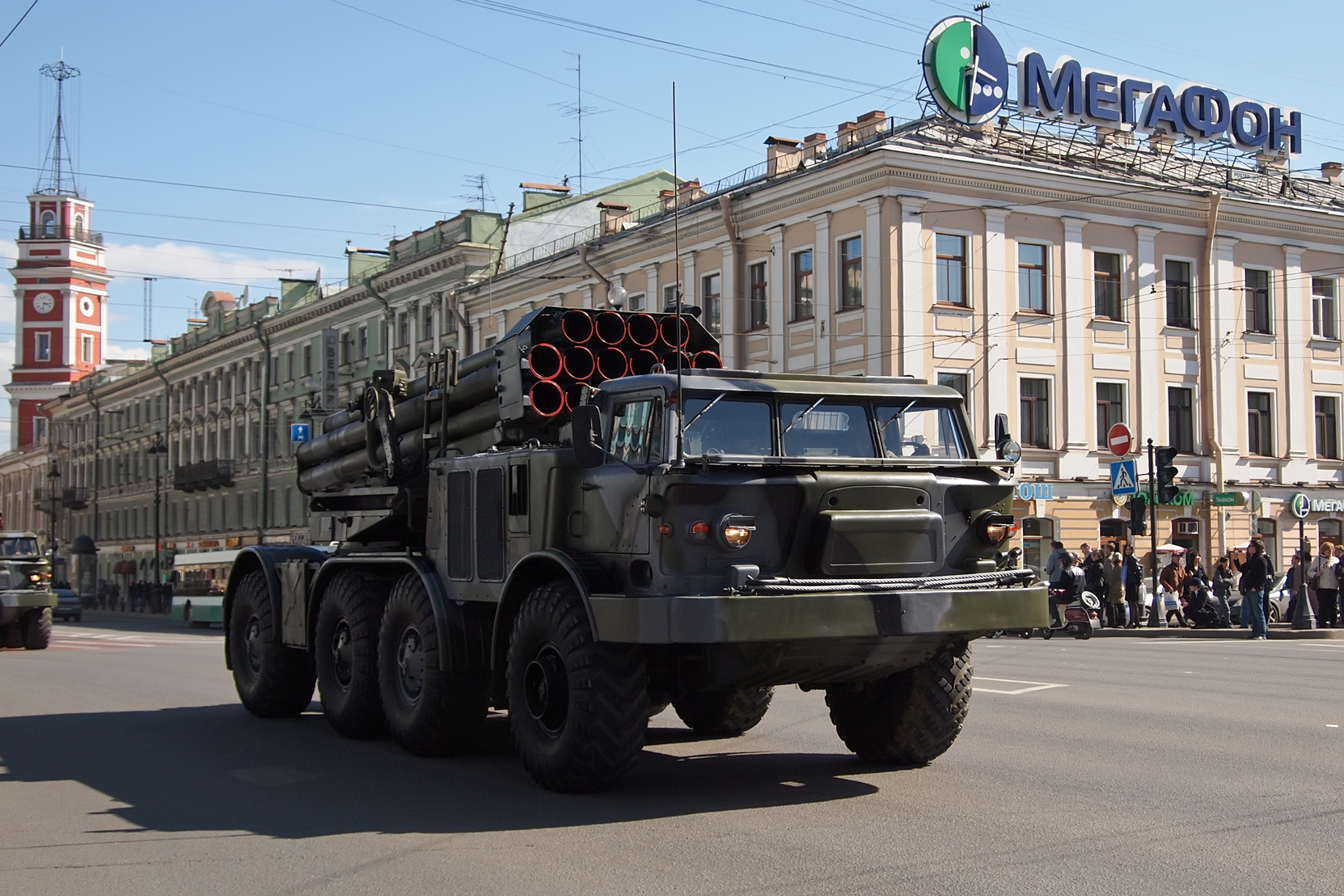 A BM-27 Uragan (based on a ZiL-135 truck) of the Russian Army in St. Petersburg.